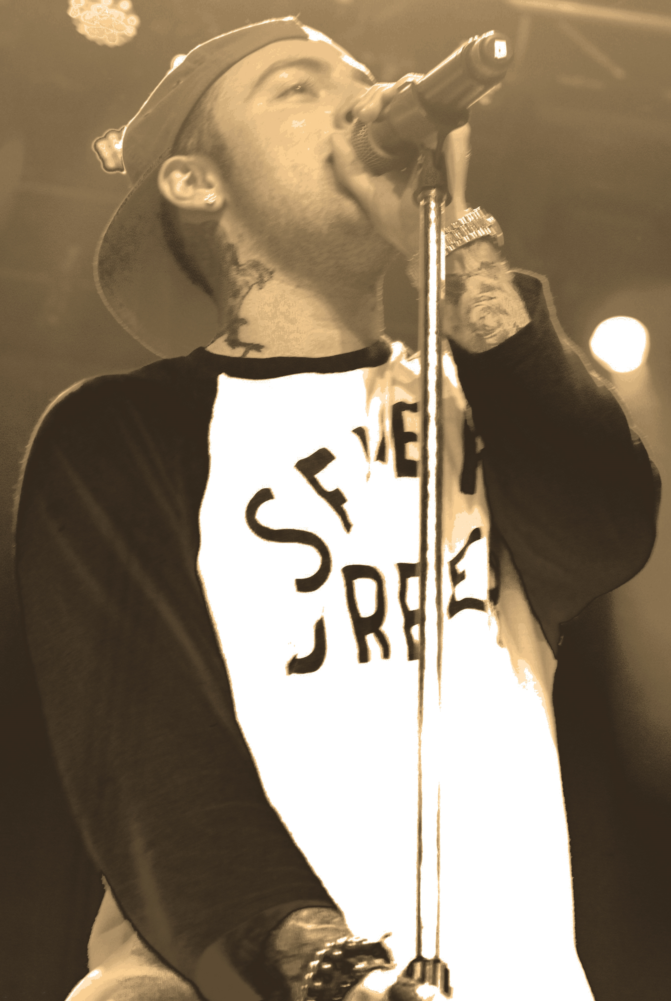 Mac Miller on The Space Migration Tour London Music Hall in September 12, 2013.